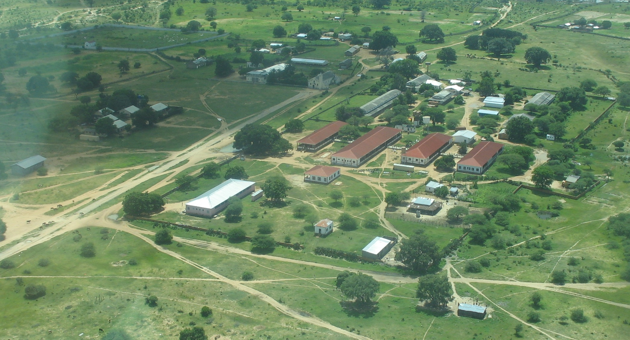 Chiulo areal view Chiulio on Wikimapia, Techiulo of Fallingrain